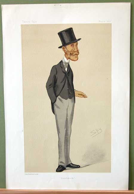 Statesmen No.222: Caricature of Mr Marcus Beresford MP. Caption reads: "Southwark"